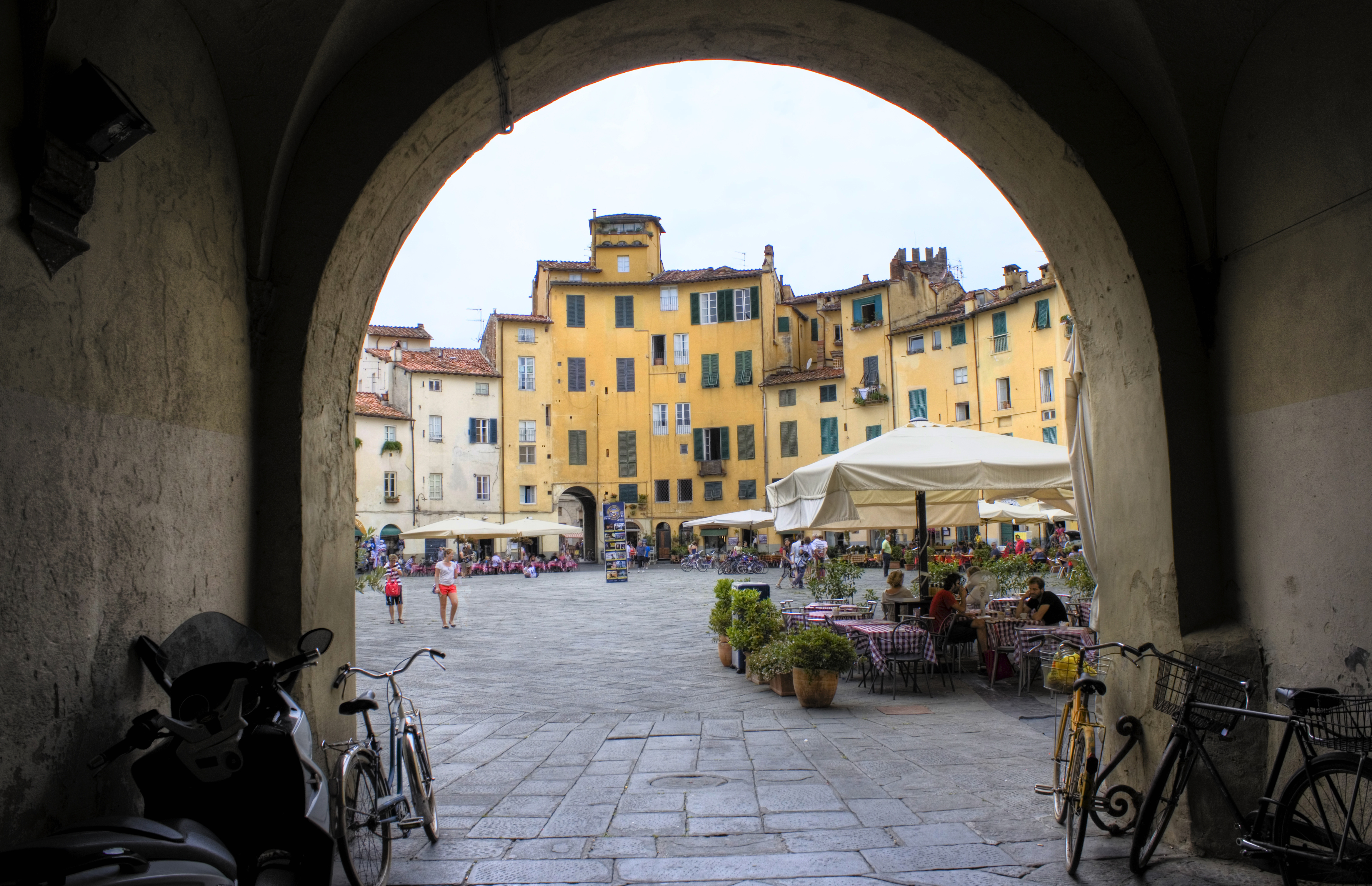 Looking into the anfiteatro.